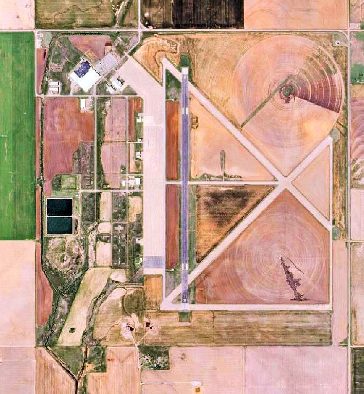 USGS digital orthophoto of Frederick Regional Airport, formerly Frederick Army Airfield, in Oklahoma